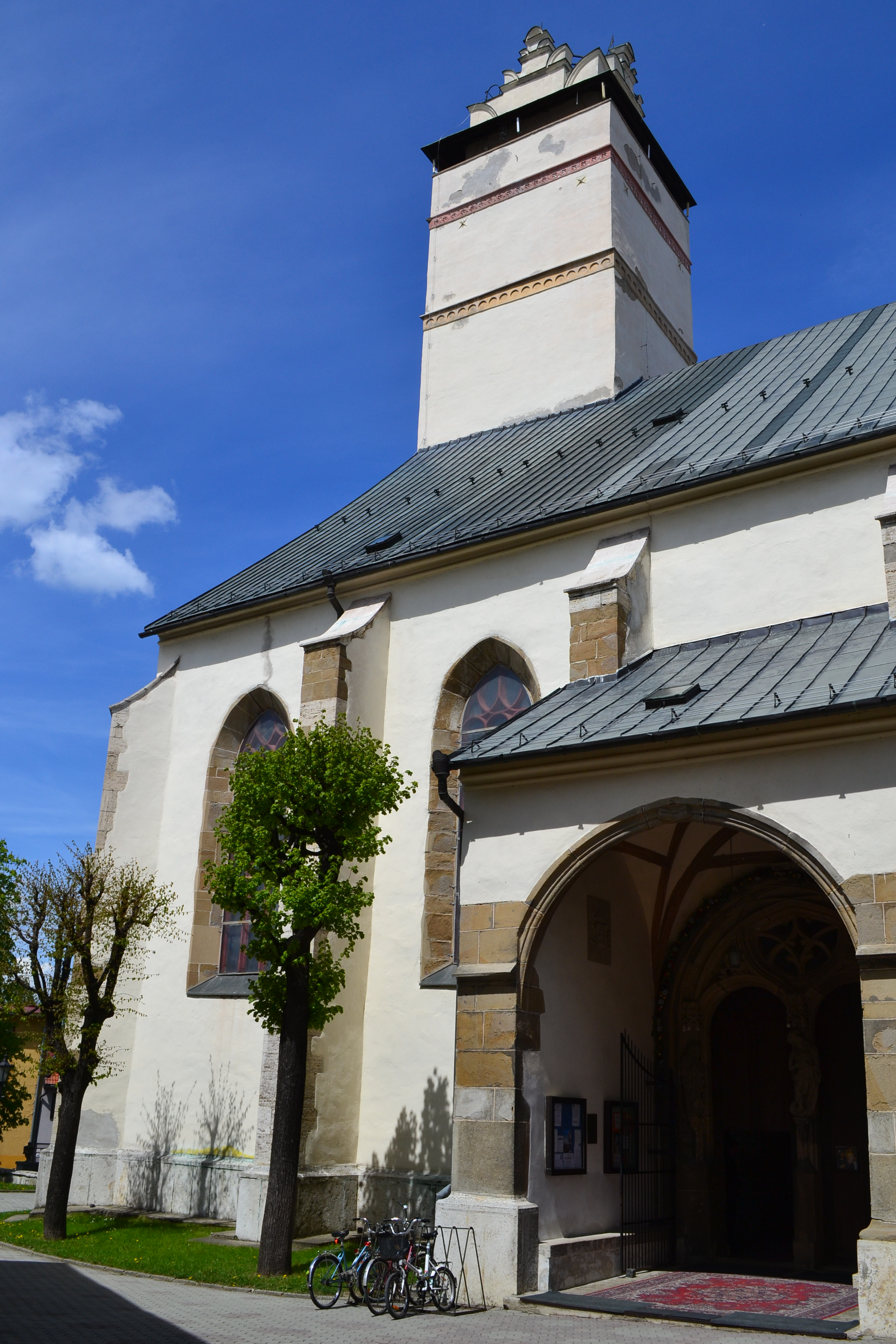 Basilica of the Holly Cross in Kezmarok